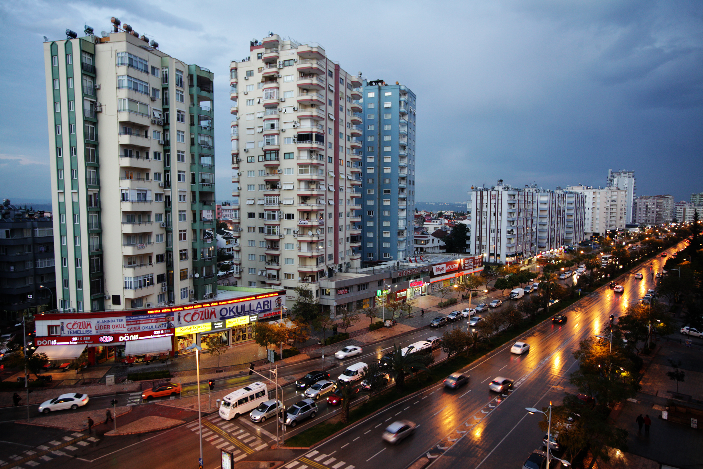 An evening view of Turgut Özal Blvd. in Çukurova, Adana - Turkey.